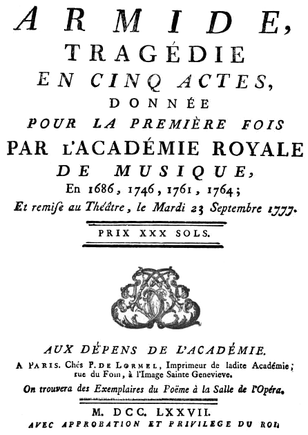 Gluck - Armide - titlepage of the libretto - Paris 1777